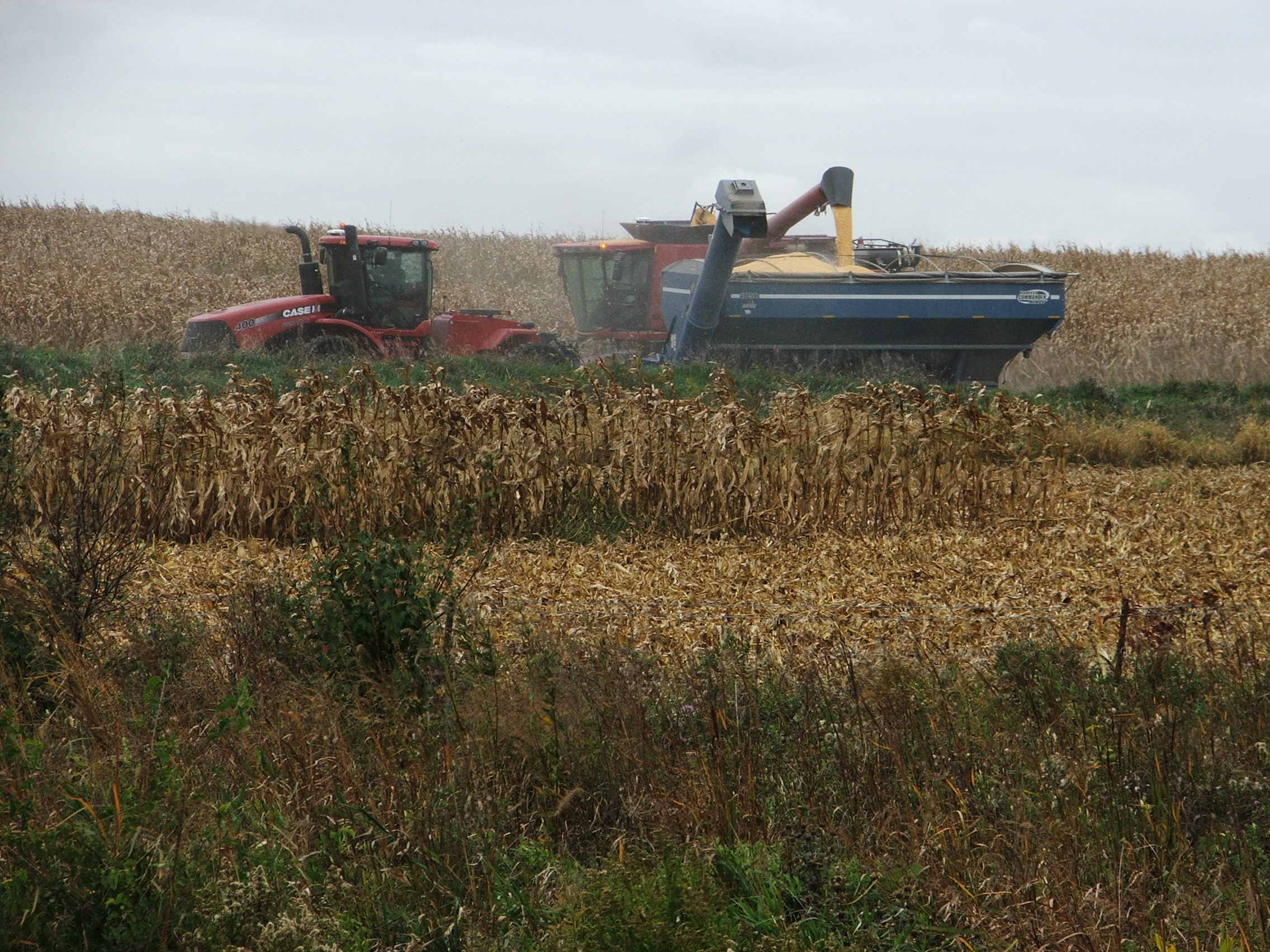 Kinze 1050 grain wagon with Case IH tractor and combine